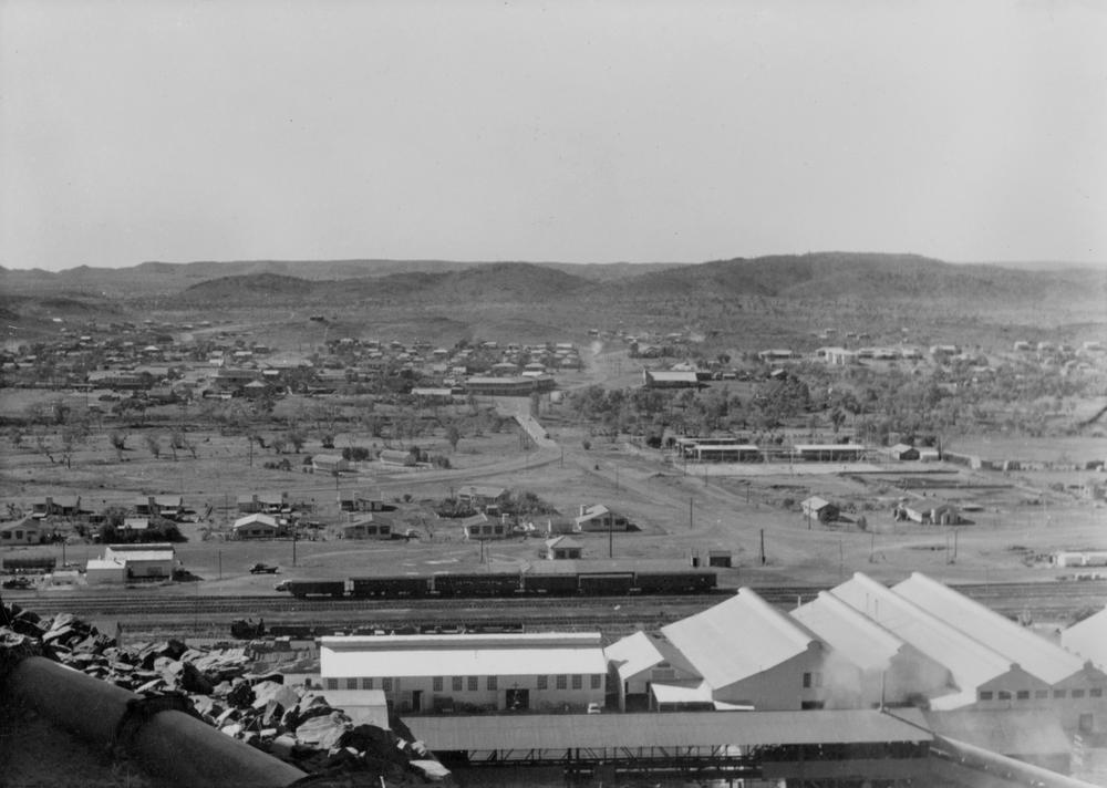 Mount Isa looking from the mine site towards town, 1953